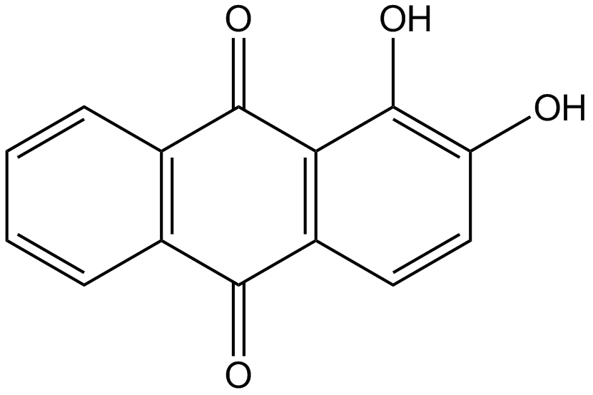 Structure of alizarine